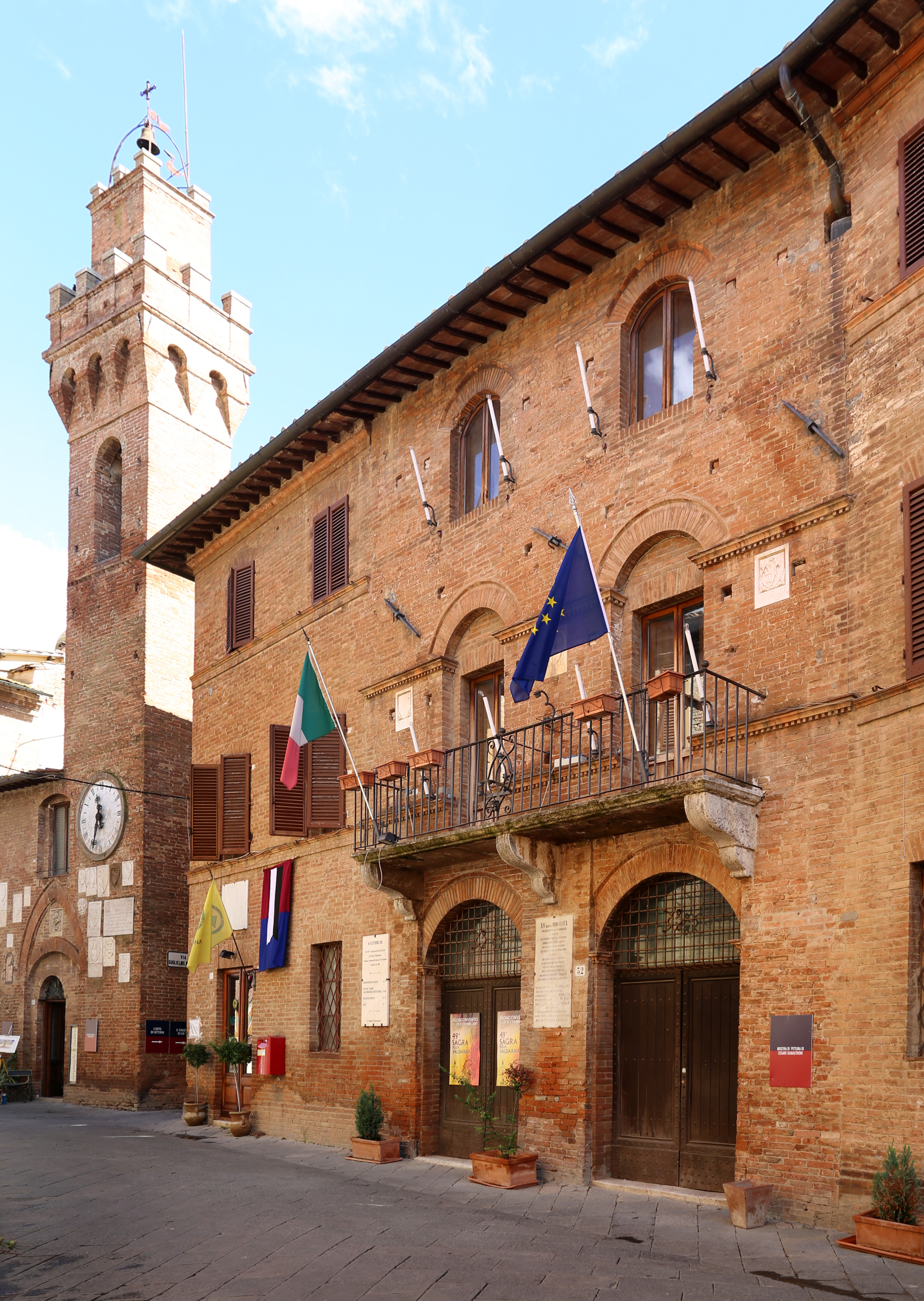 Buonconvento